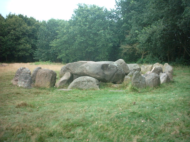 Hunebed near Drouwen, the Netherlands. August 2004.